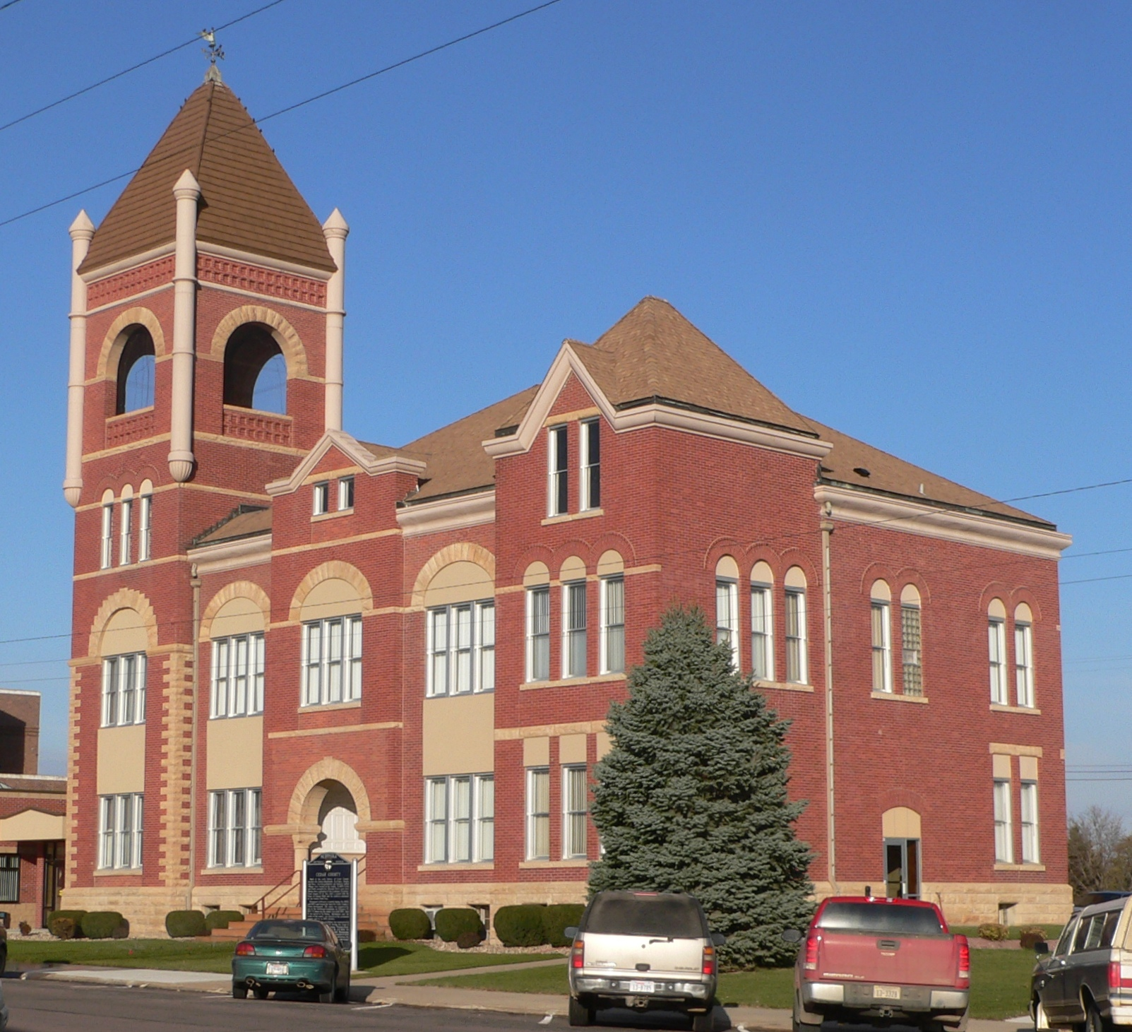 Cedar County Courthouse in Hartington, Nebraska; seen from the southwest. The courthouse was built in 1891; the Romanesque Revival building is listed in the National Register of Historic Places.